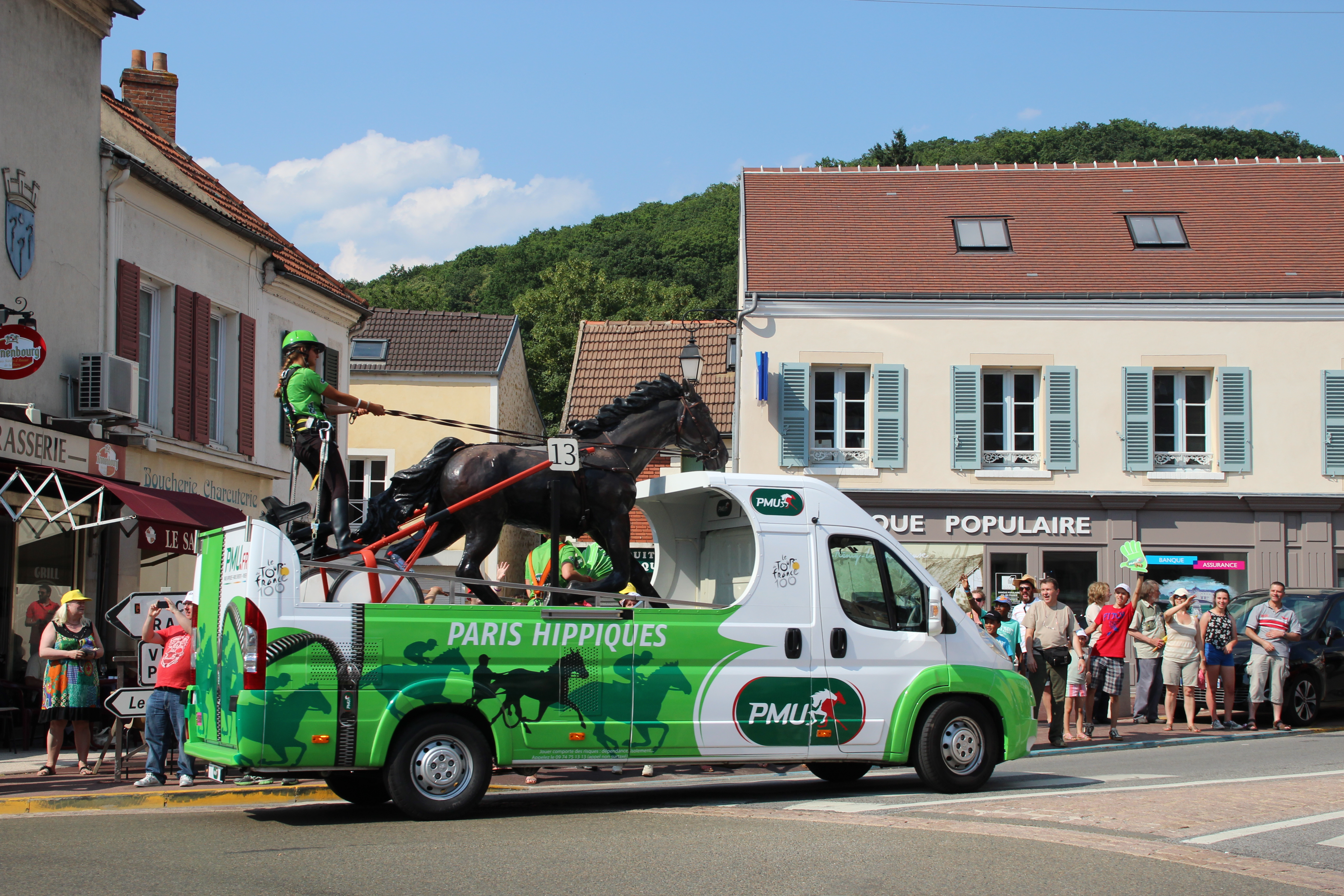 Tour de France 2013 sport event in Saint-Rémy-lès-Chevreuse, France